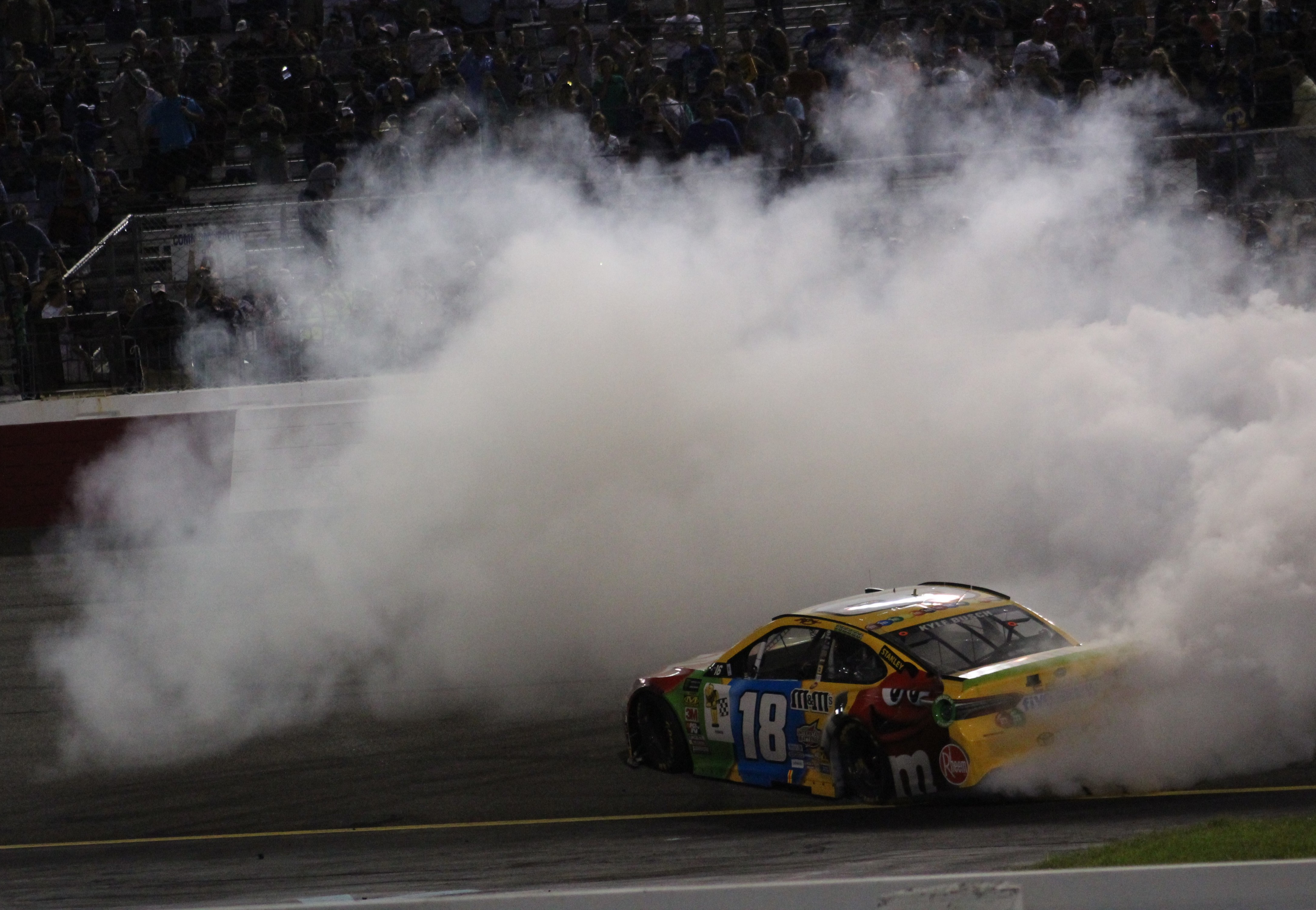 Kyle Busch performs a burnout after winning the Federated Auto Parts 400 at Richmond Raceway in 2018.